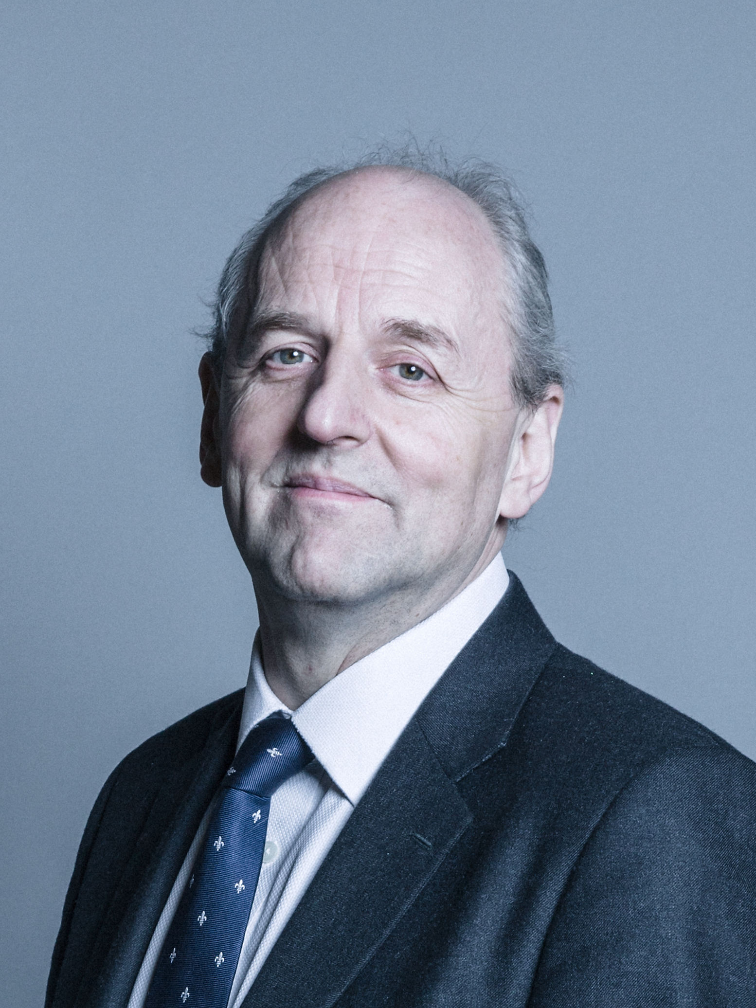 Official portrait of Lord Redesdale